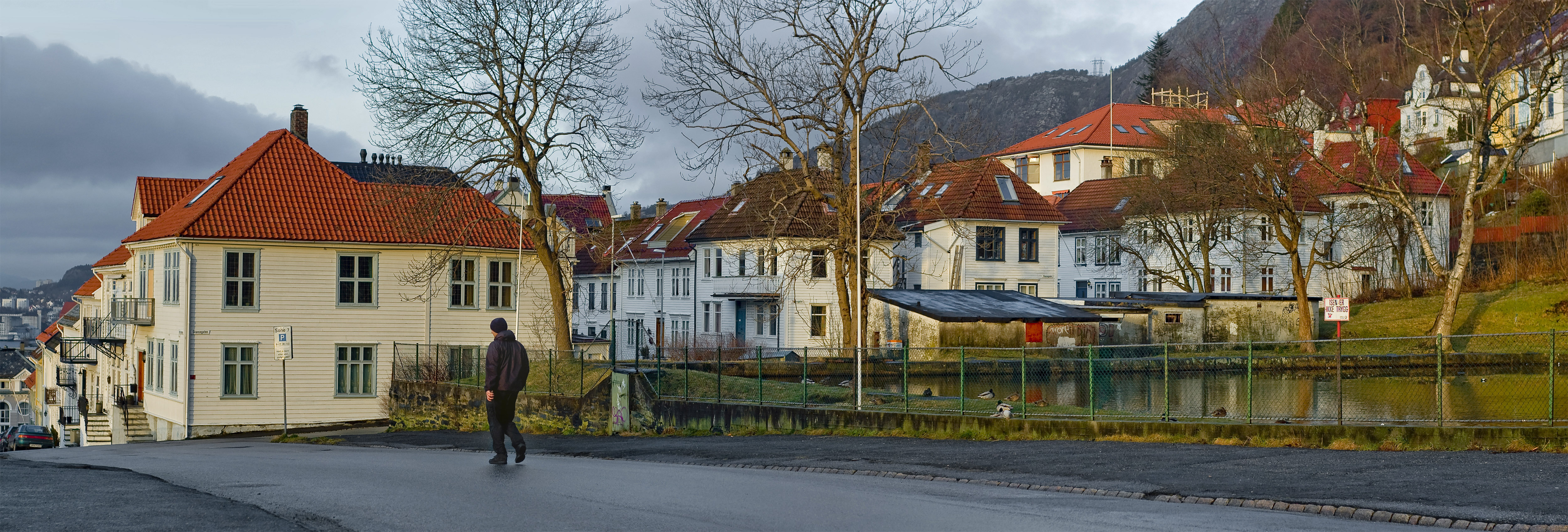 Eidemarken, a neighbourhood in the city of Bergen, Norway. Taken from in front of the fire station Skansen on December 23, 2007. The lake is Skansendammen.